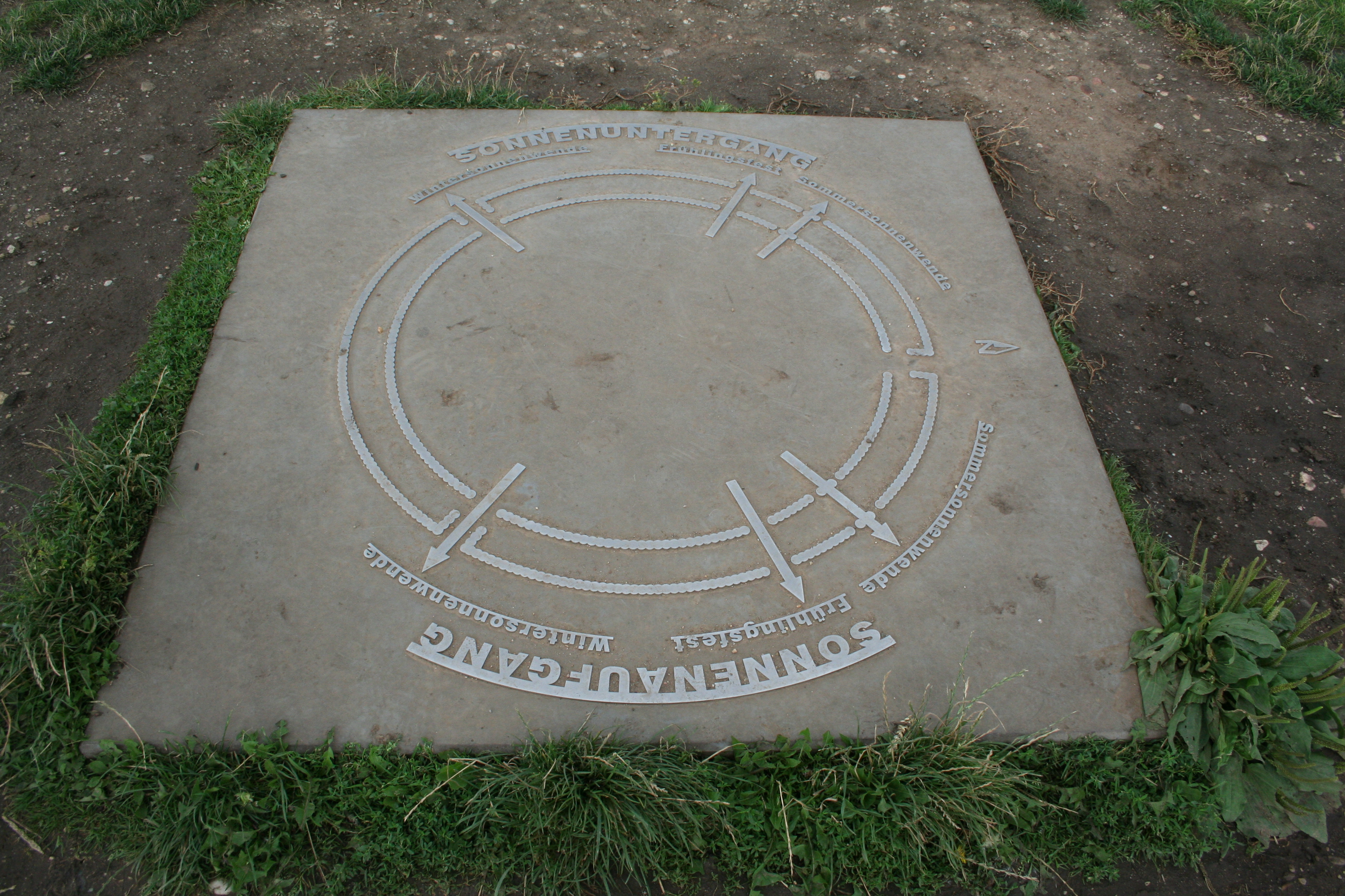 Circular ditch of Goseck